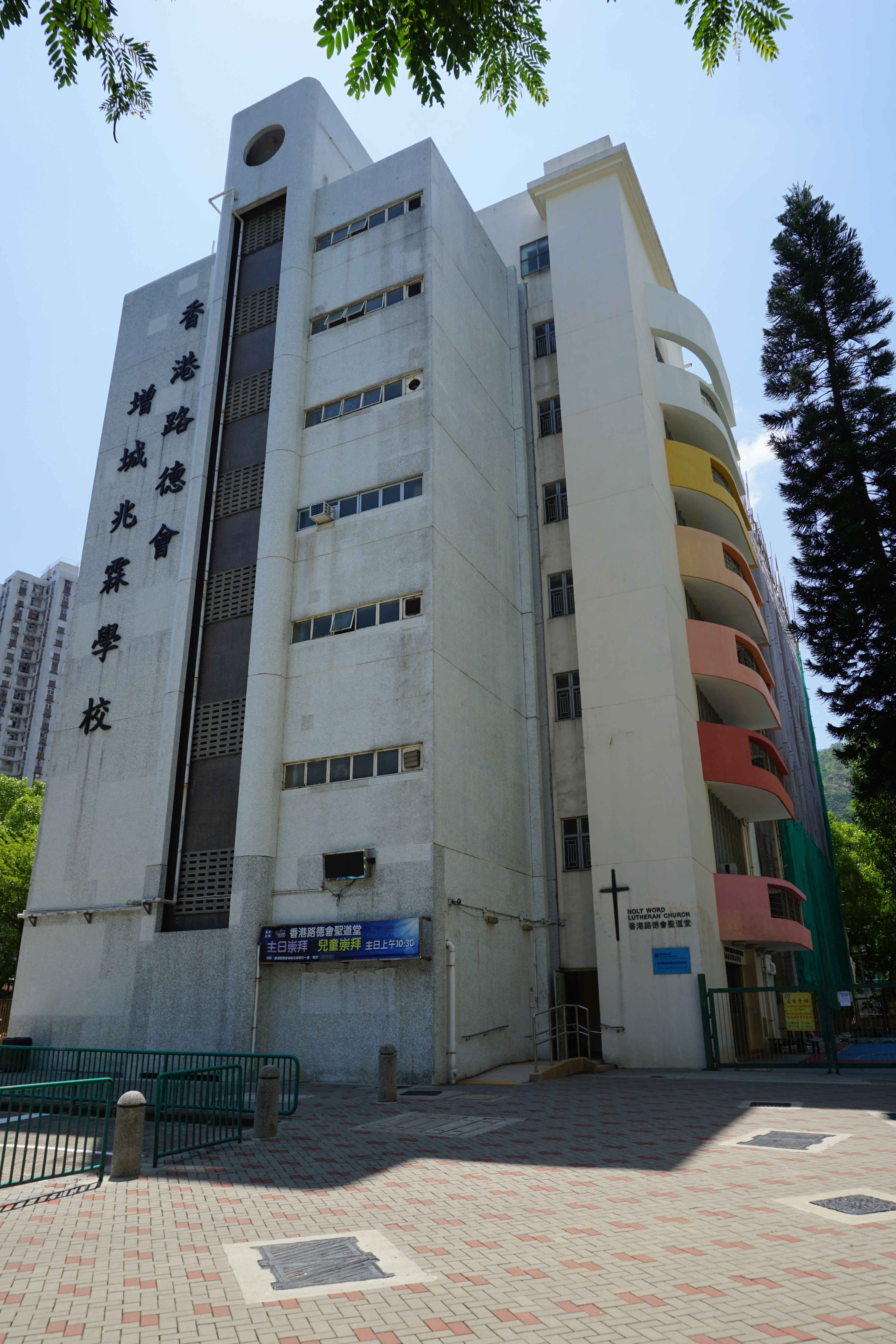 Lutheran Tsang Shing Siu Leun School in Tuen Mun, Hong Kong.